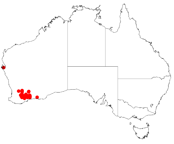 Acacia rostellata Occurrence data from Australasia Virtual Herbarium downloaded from on 8 December 2018